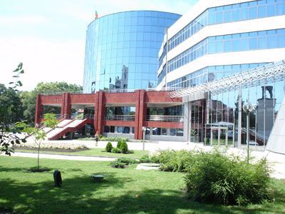 Bourgas Free University